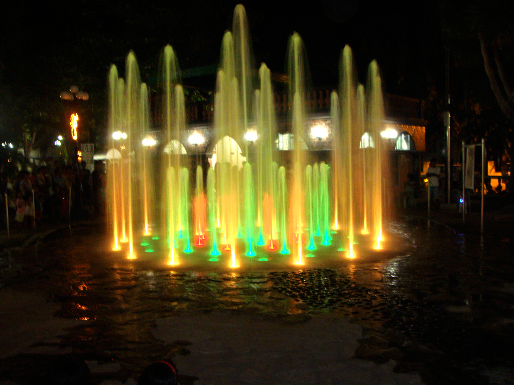 Dancing Floor Fountain of Candon City